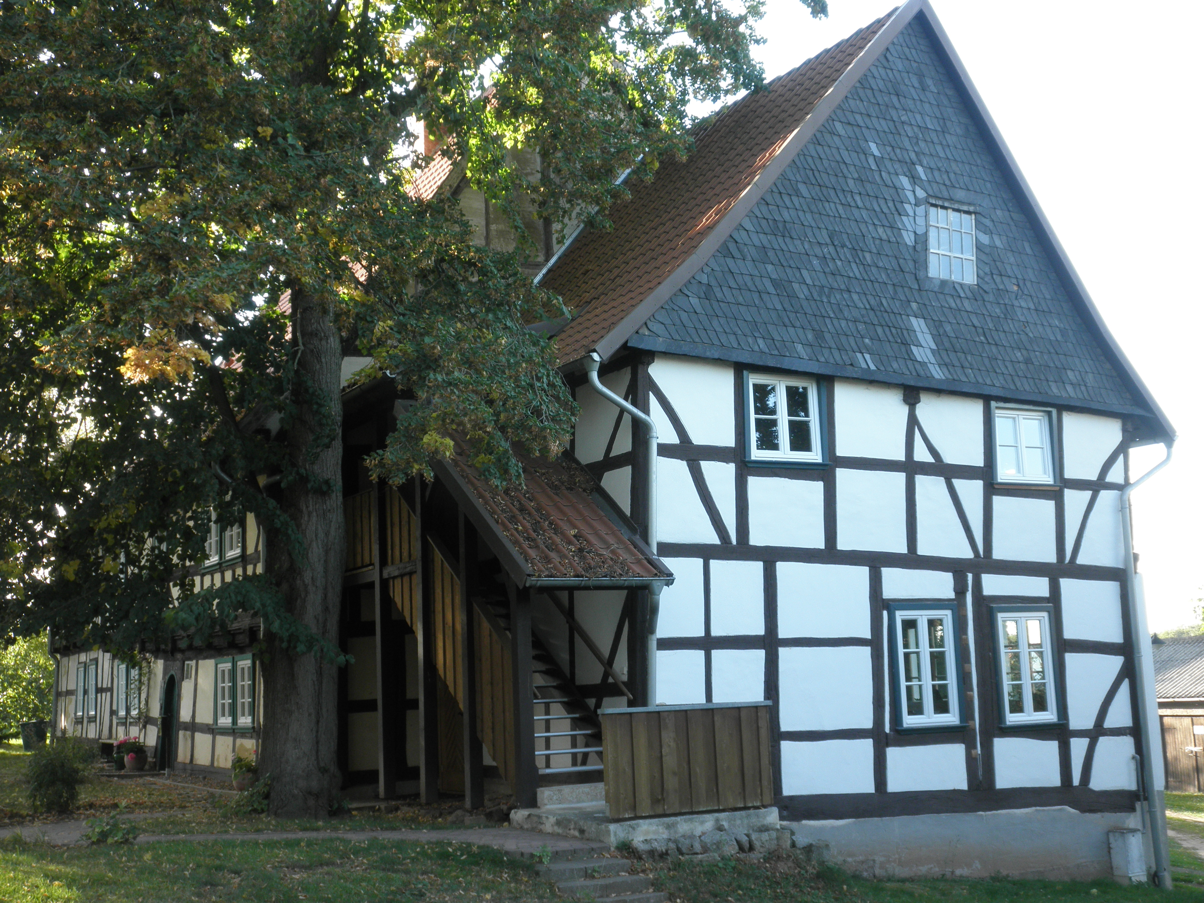 Half timbered House in Großwechsungen (Werther) in Thuringia